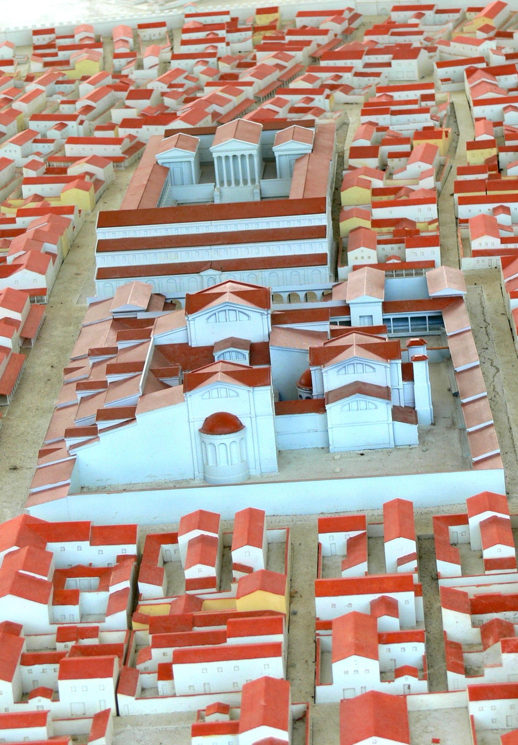 Petronell ( Lower Austria ).Open air museum: Model of Carnuntum ( 210 AD ) - Forum of the civil city.